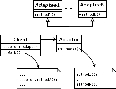 A UML diagram giving an example of a Class Adapter